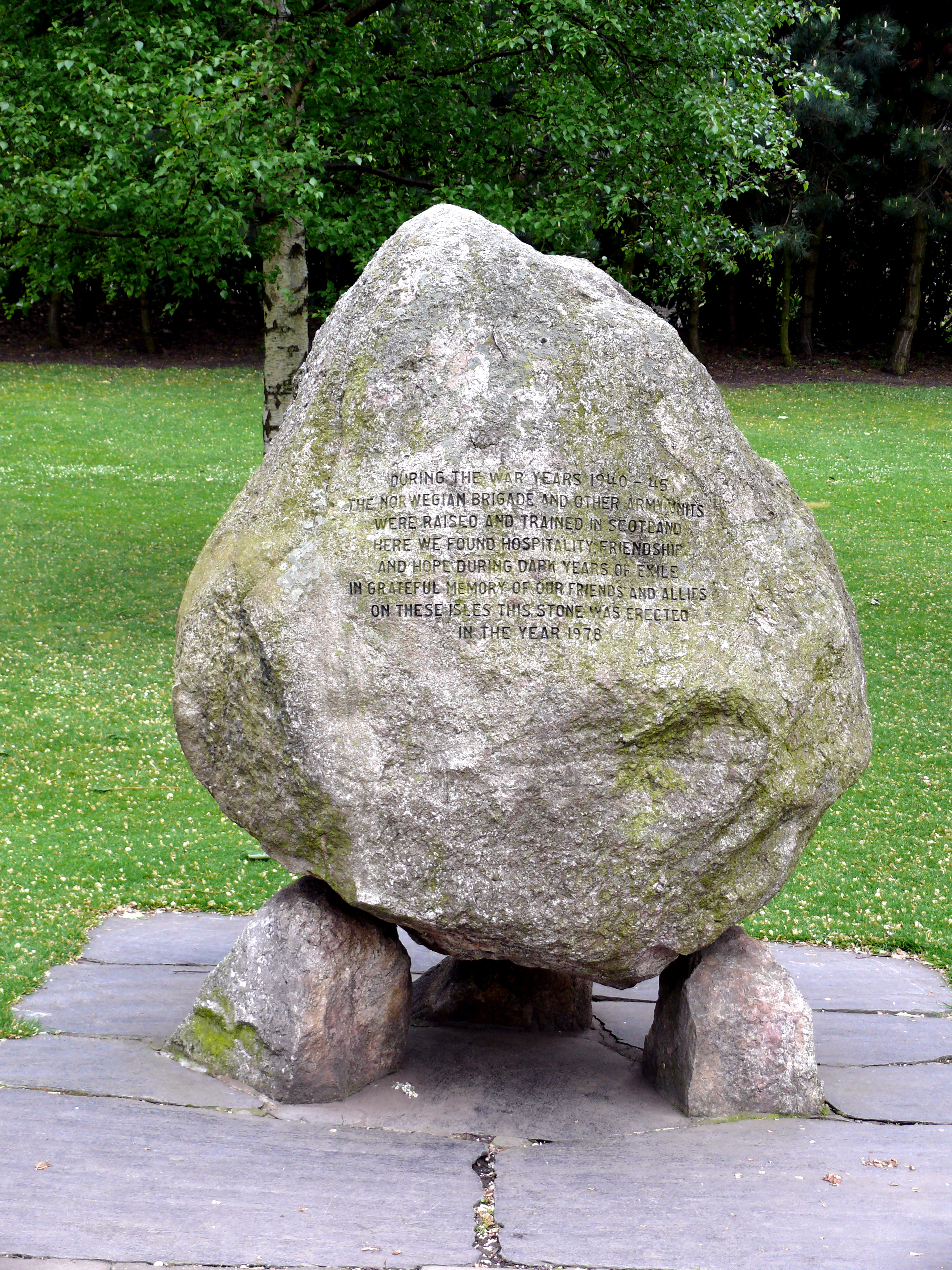 The Norwegian Brigade War Memorial in West Princes Street Gardens, Edinburgh. the text on the boulder runs: "During the war years 1940-45 the Norwegian Brigade and other army units were raised and trained in Scotland. Here we found hospitality, friendship and hope during dark years of exile. In grateful memory of our friends and allies on these isles this stone was erected in the year 1978."